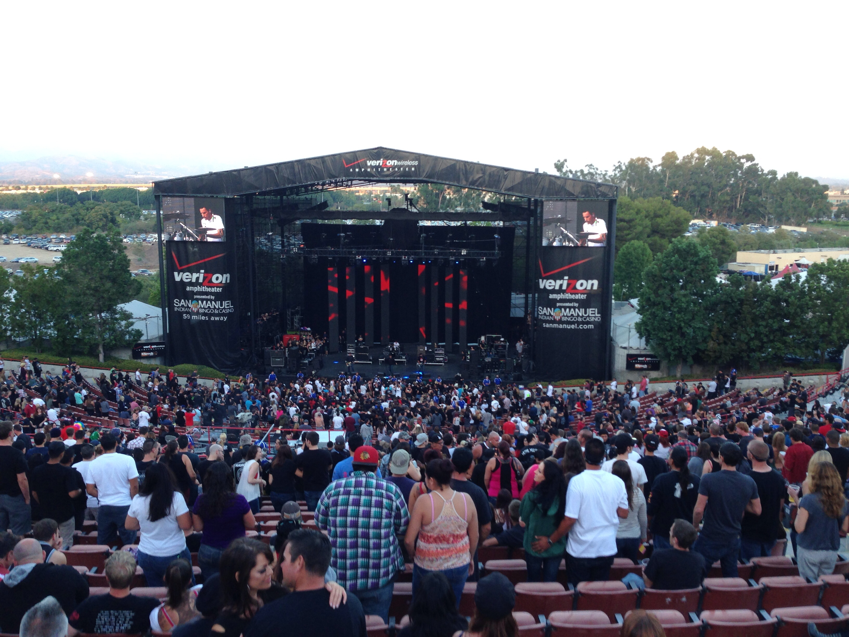 Pennywise on stage during KROQ Epicenter 2013 at Verizon Wireless Amphitheater (formally Irvine Meadows)